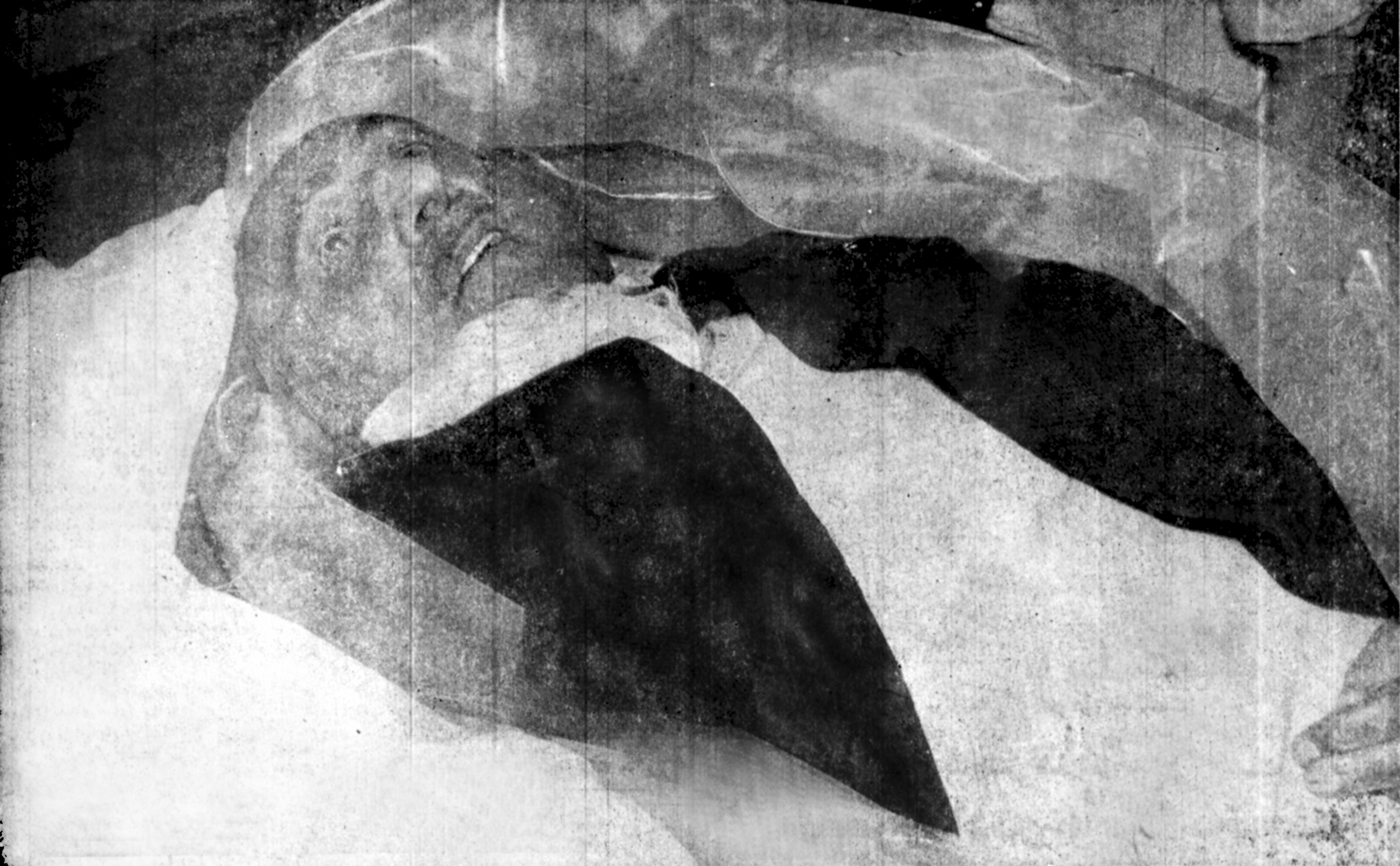 The lifeless body of Nematollah Nasiri, executed on the 15 feb 1979